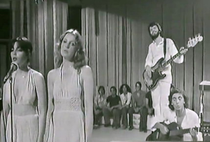 screenshot from the TV series Adesso Musica (1975)